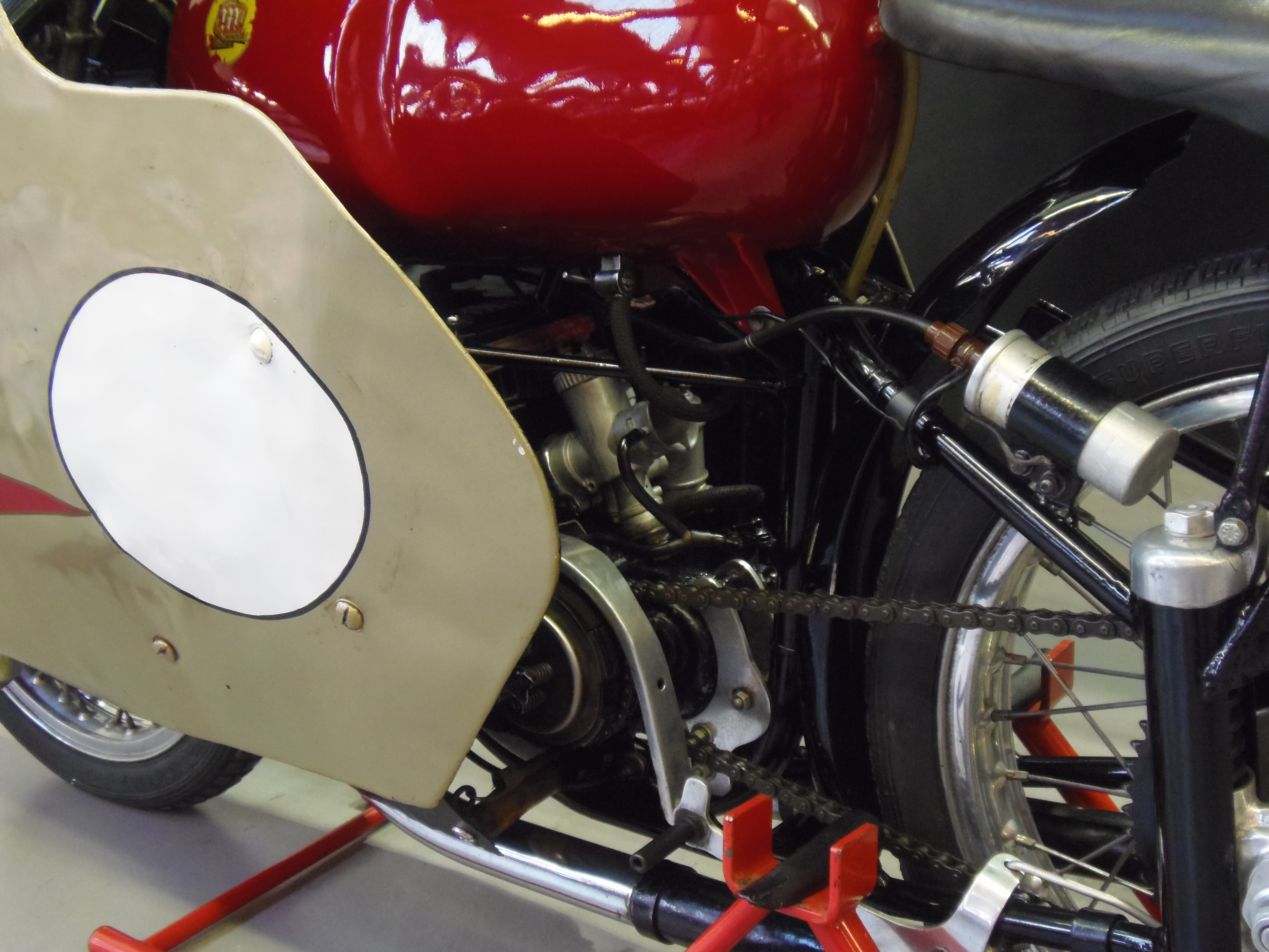 The carburetor and the rear transmission of a Montesa Sprint 125cc. On three bikes like this, Marcel Cama, Paco González and Enric Sirera finished second, third and fourth (after Carlo Ubbiali) at the 1956 Manx TT.